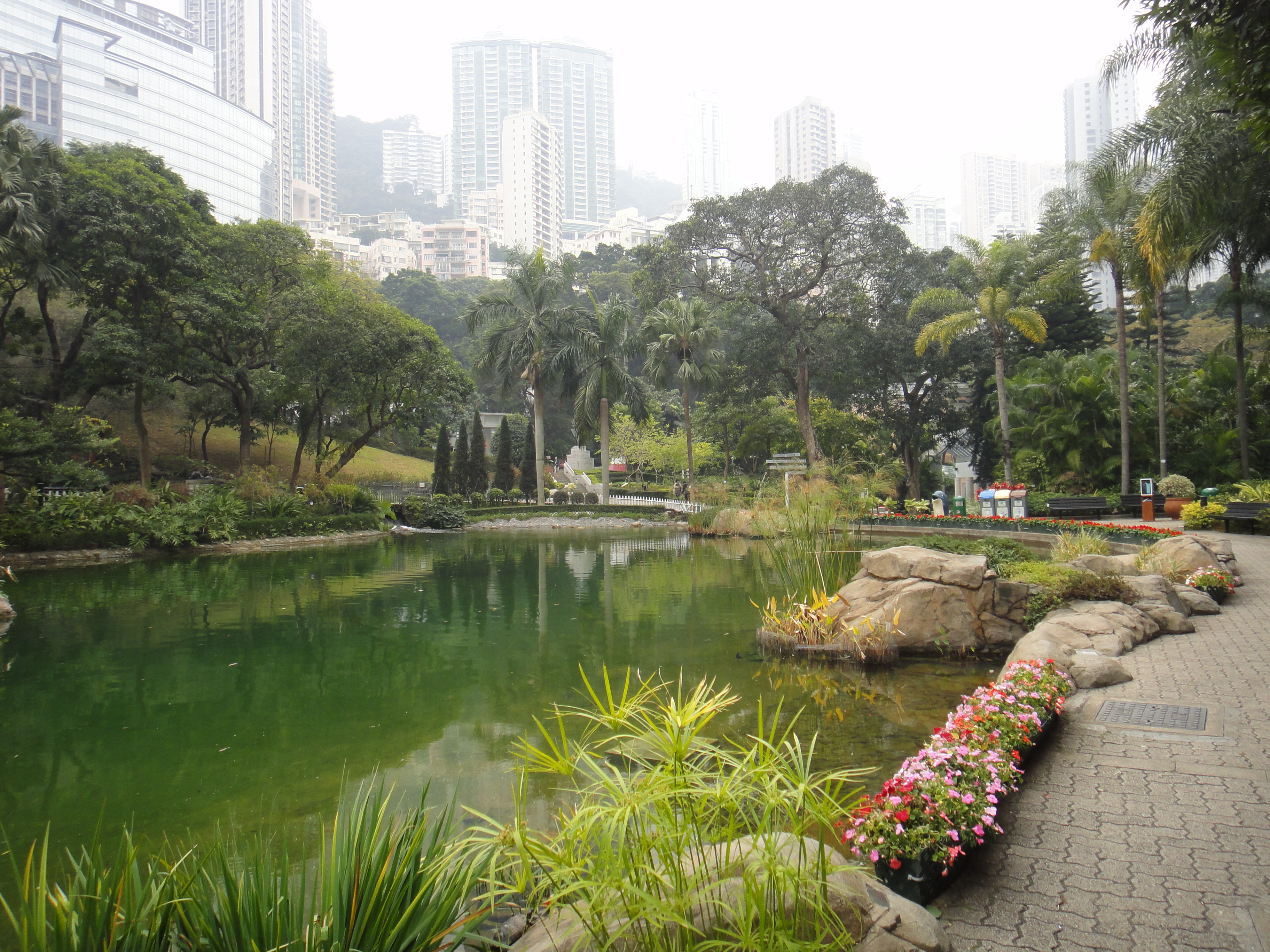 Hong Kong Park Pond side